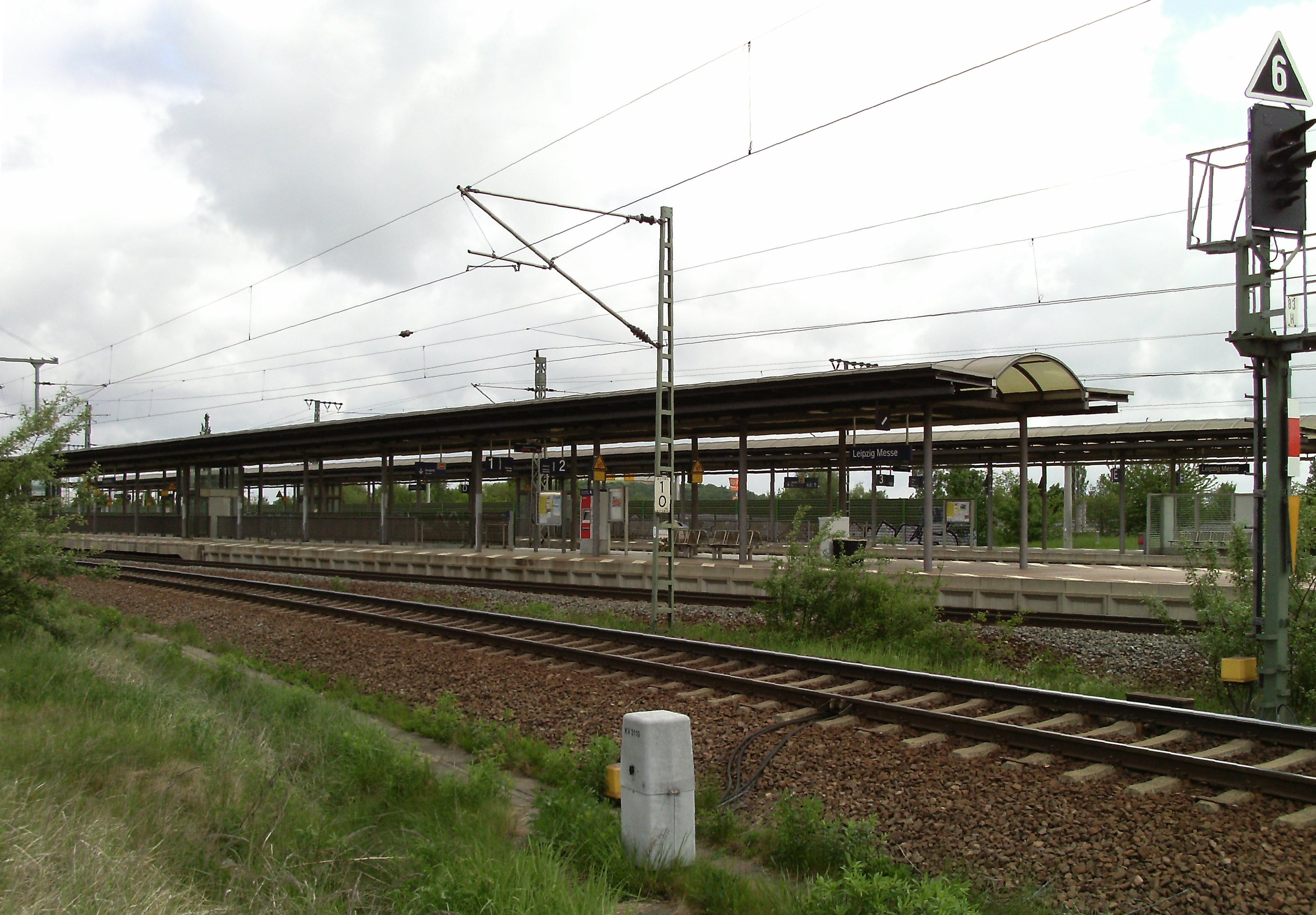 Leipzig Messe train station